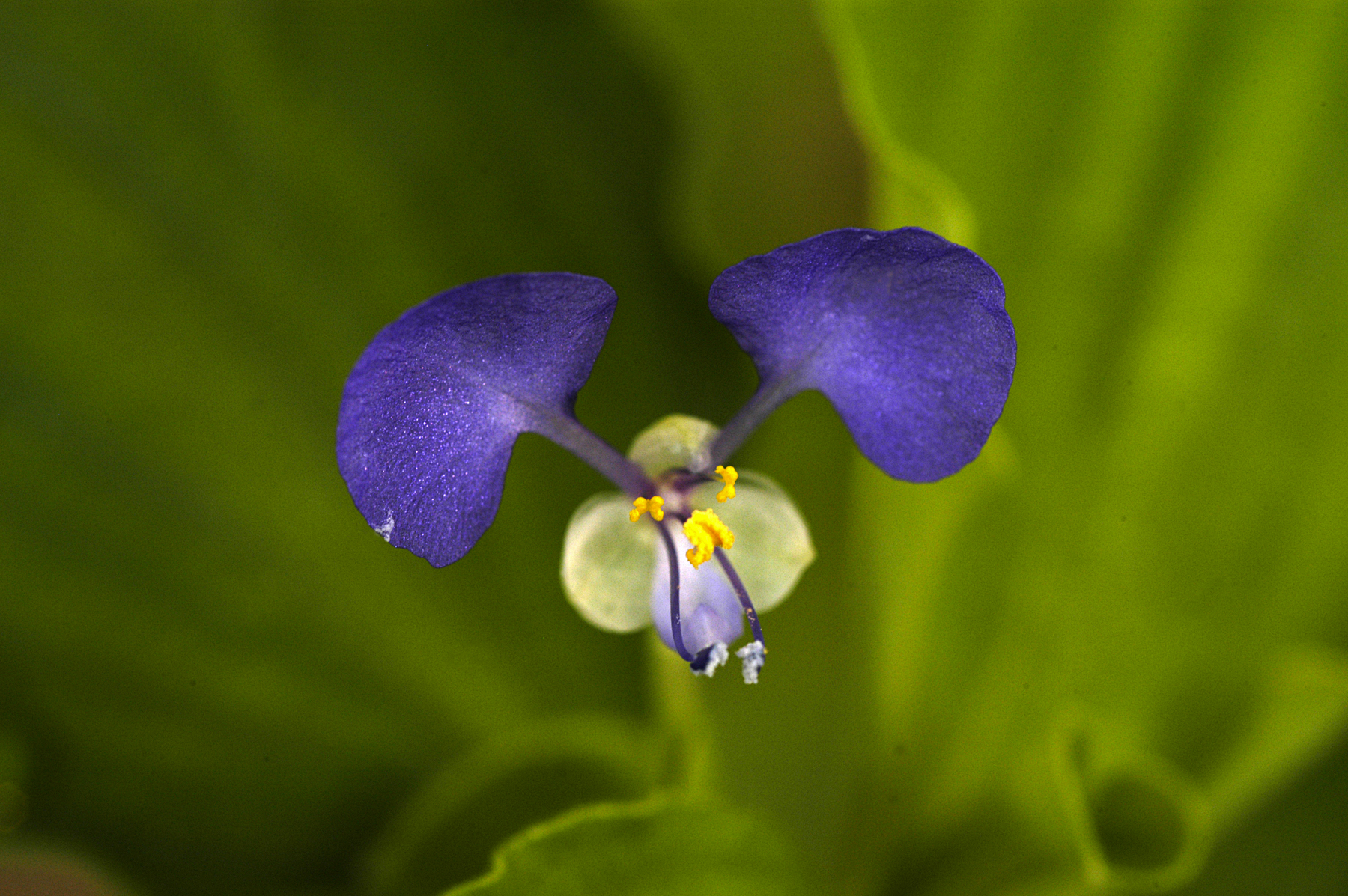 Tropical spiderwort (Commelina benghalensis). Photo